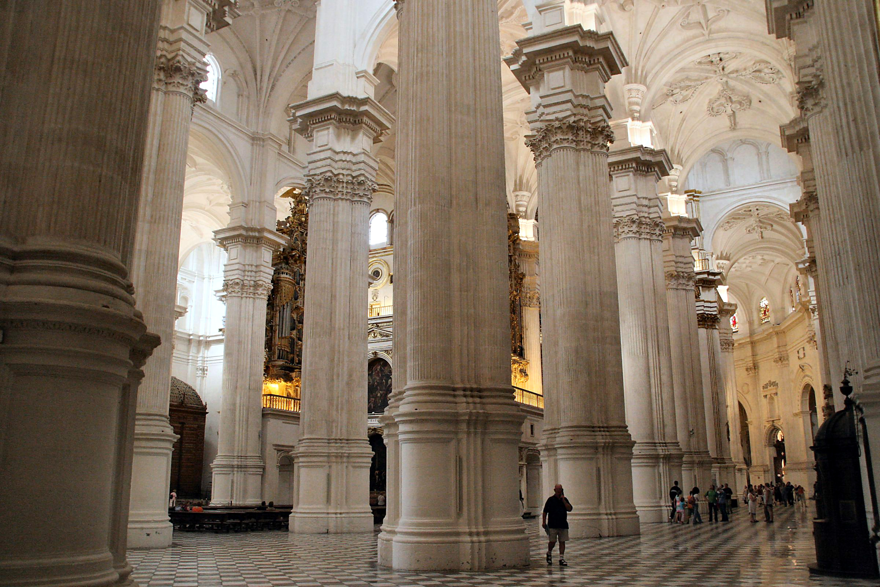 Interior of the Cathedral of Granada, Spain.